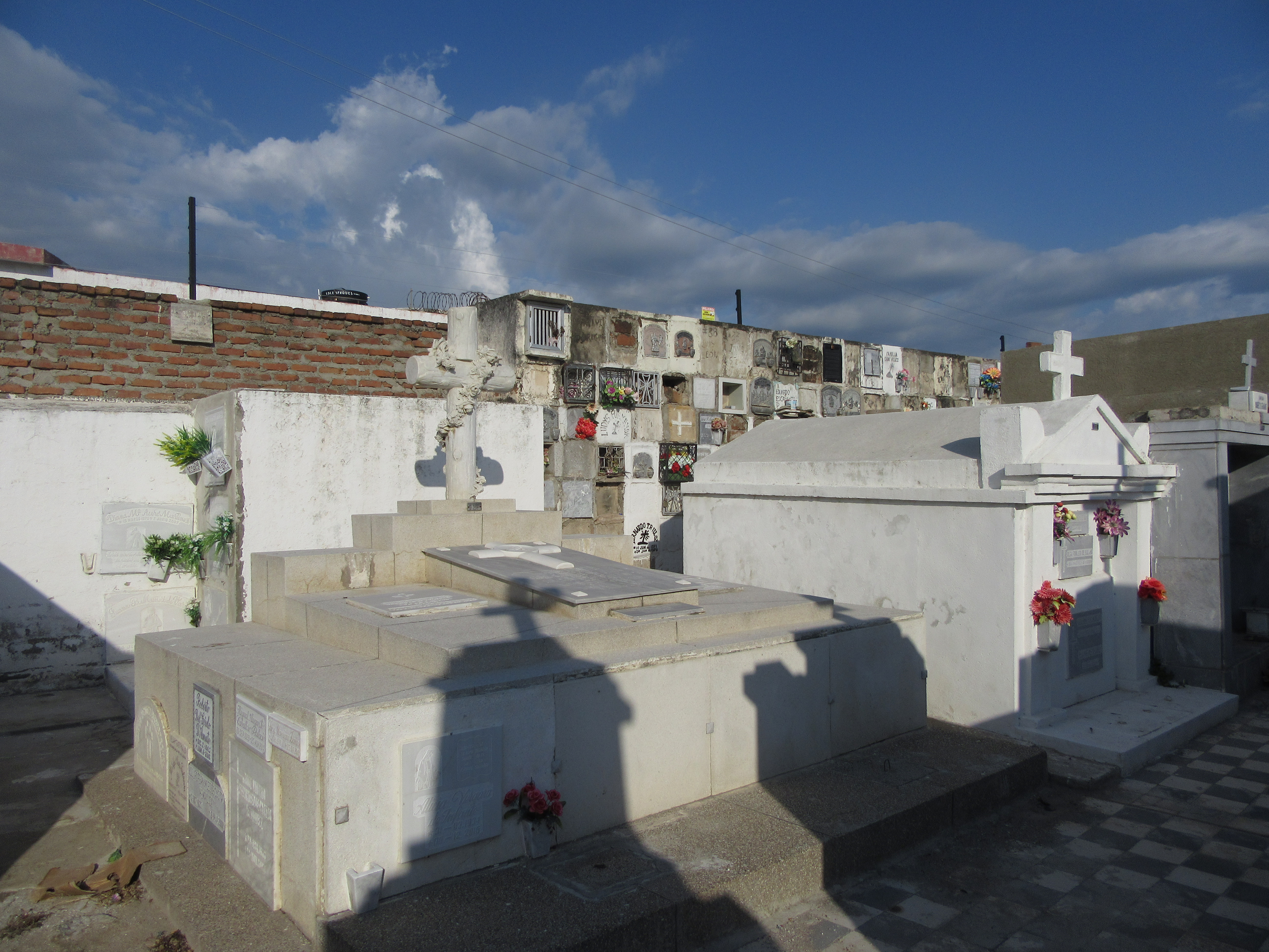 Santa Marta